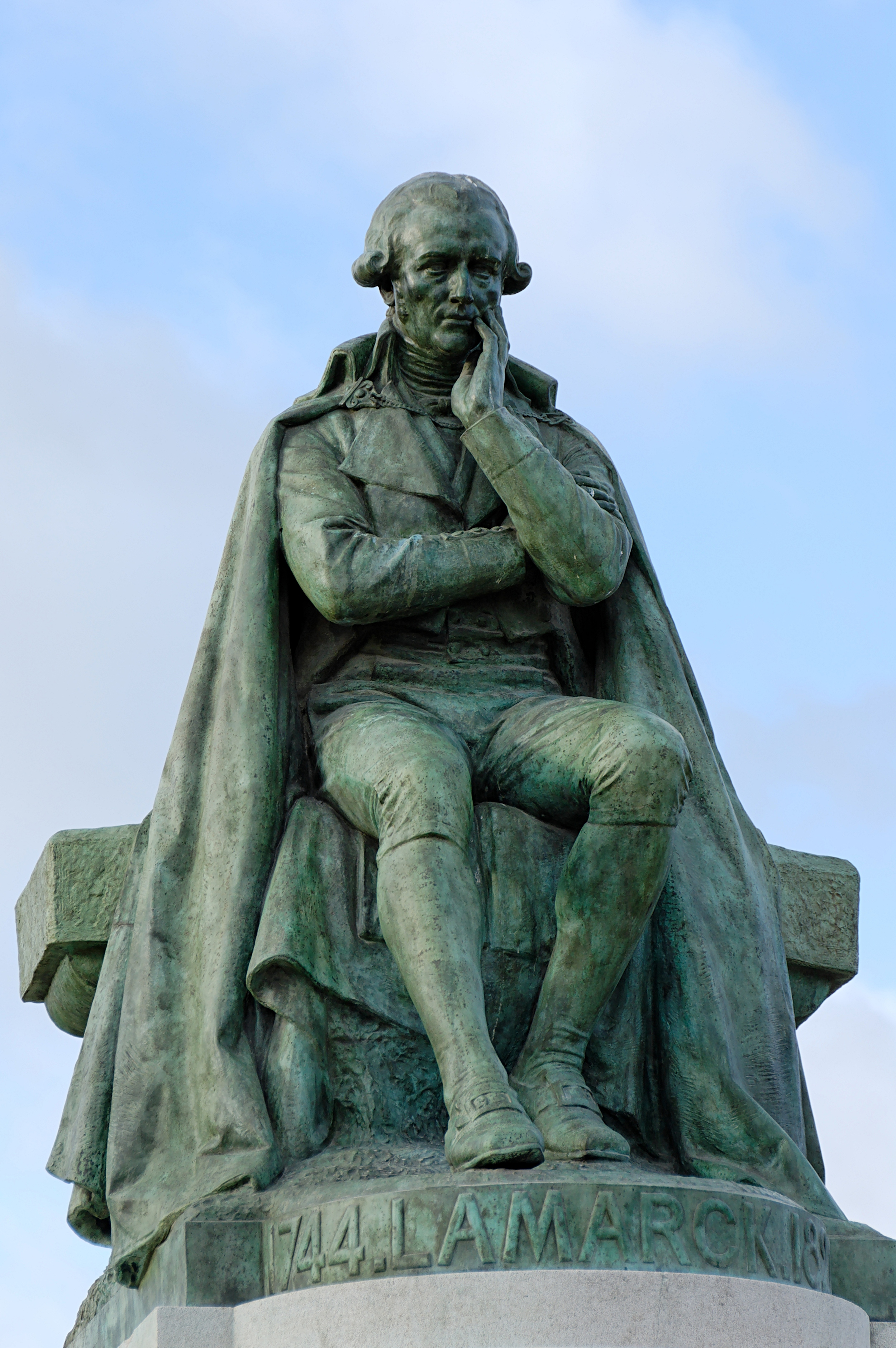 Statue of the French naturalist Jean-Baptiste de Lamarck (1744–1829) by Léon Fagel (French, 1851–1913). Bronze, 1908. In front of the Place Valhubert entrance of the Jardin des Plantes in Paris.